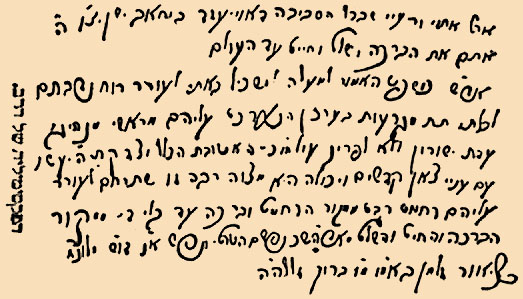 Illustration from Brockhaus and Efron Jewish Encyclopedia (1906—1913).